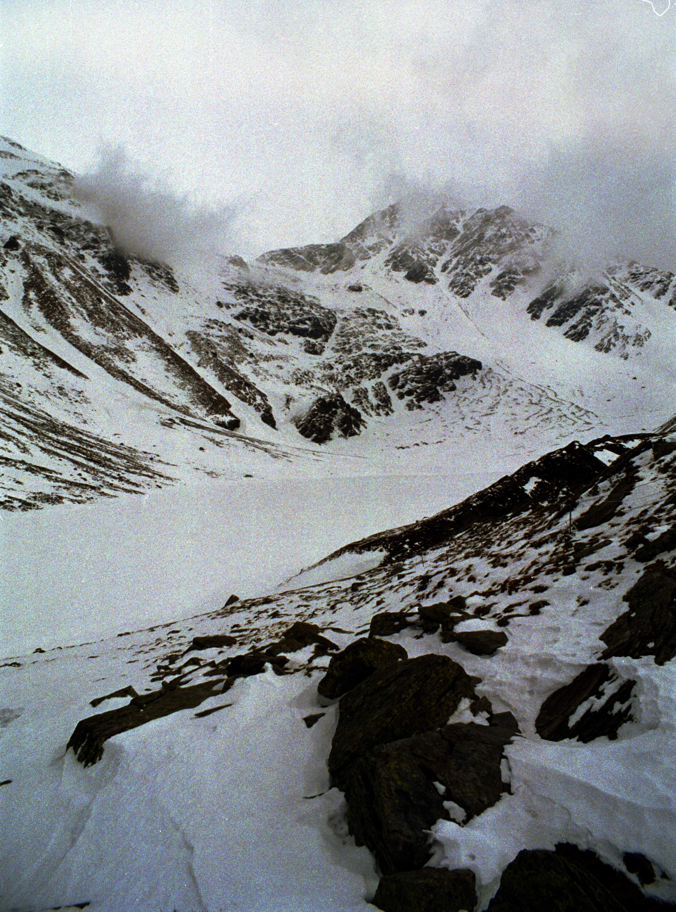 Photograph of the Lago dell’Acquafraggia when frozen and also covered by snow. This Alpine lake is situated in the Valle dell’Acquafraggia. A small river, also called Acquafraggia, flows from the lake and through the valley, forming a number of waterfalls, before entering the Fiume Mera from the right a little above Chiavenna in the lower Val Bregaglia, Province of Sondrio, Lombardy, Italy. Acquafraggia may also be spelled as two words: ‘Acqua fraggia’